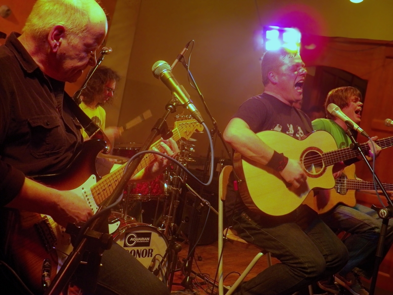 Czech rock band Blue Effect performing in Prysk, CZ in the March of 2012.